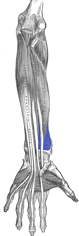 I recolored this using GIMP. It is a derivative work of a Gray's Anatomy plate. Unless stated otherwise, this image is from the 20th U.S. edition of Gray's Anatomy of the Human Body, originally published in 1918 and therefore lapsed into the public domain. A copy of Gray's Anatomy can be found on Bartleby and also on Yahoo!. This image is in the public domain because it is a mere mechanical scan or photocopy of a public domain original, or – from the available evidence – is so similar to such a scan or photocopy that no copyright protection can be expected to arise. The original itself is in the public domain for the following reason: This work is in the public domain in its country of origin and other countries and areas where the copyright term is the author's life plus 100 years or less. This work is in the public domain in the United States because it was published (or registered with the U.S. Copyright Office) before January 1, 1923. This file has been identified as being free of known restrictions under copyright law, including all related and neighboring rights. This tag is designed for use where there may be a need to assert that any enhancements (eg brightness, contrast, colour-matching, sharpening) are in themselves insufficiently creative to generate a new copyright. It can be used where it is unknown whether any enhancements have been made, as well as when the enhancements are clear but insufficient. For known raw unenhanced scans you can use an appropriate PD-old tag instead. For usage, see Commons:When to use the PD-scan tag. Note: This tag applies to scans and photocopies only. For photographs of public domain originals taken from afar, PD-Art may be applicable. See Commons:When to use the PD-Art tag.